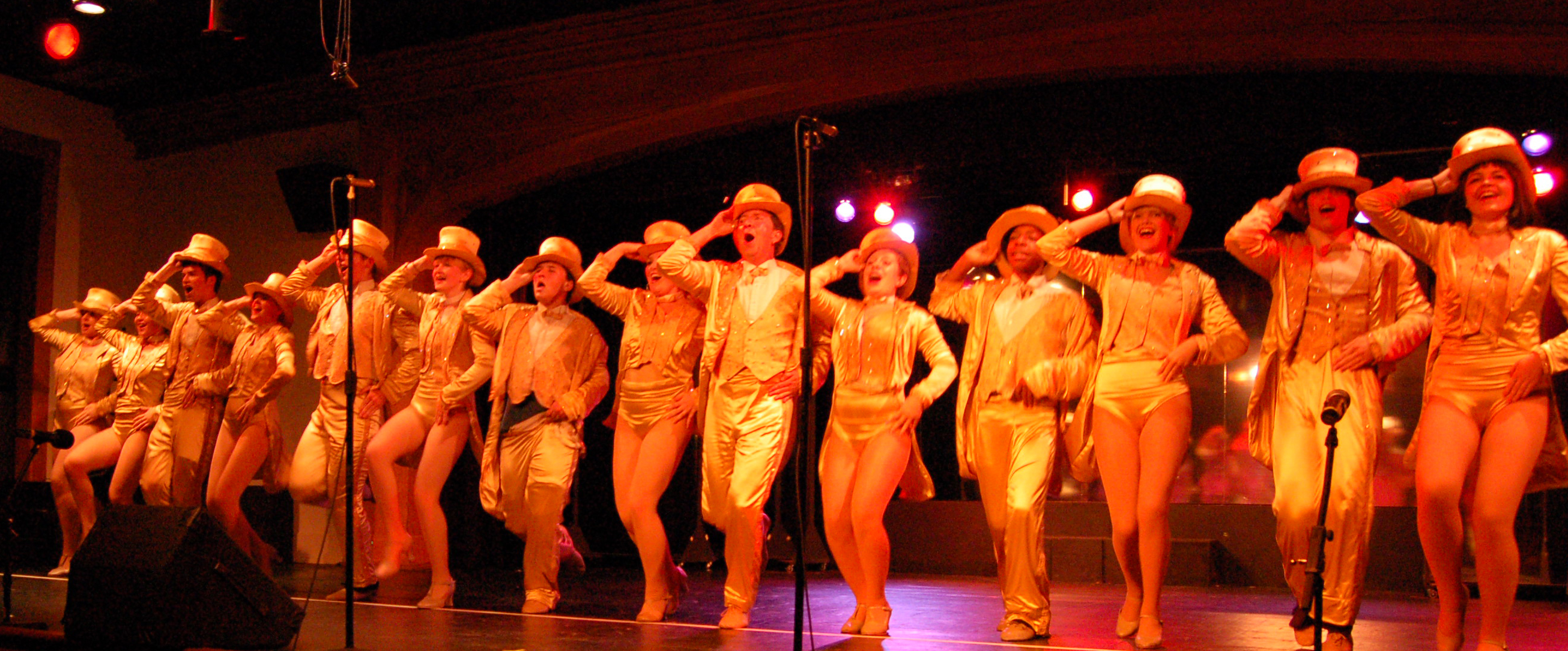 A Chorus Line used conventional lighting Lekos Pars Fresnels Performed in the Lupton Theatre Lighting Design By Andrew Carson.